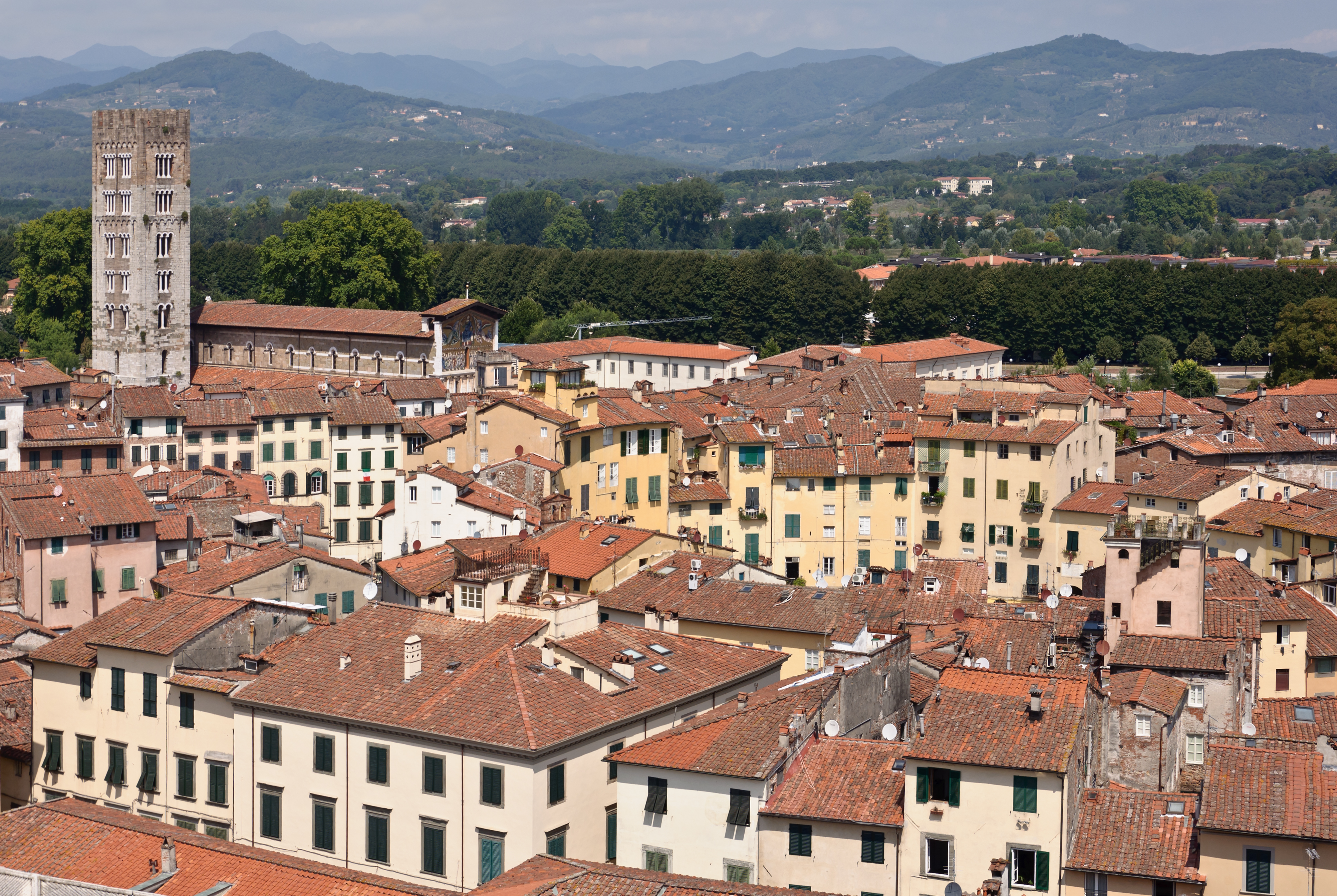 Lucca, Tuscany, Italy, seen from the Torre Guinigi. On this view, one can see the Basilica of San Frediano with its campanile and the piazza dell'Anfiteatro.